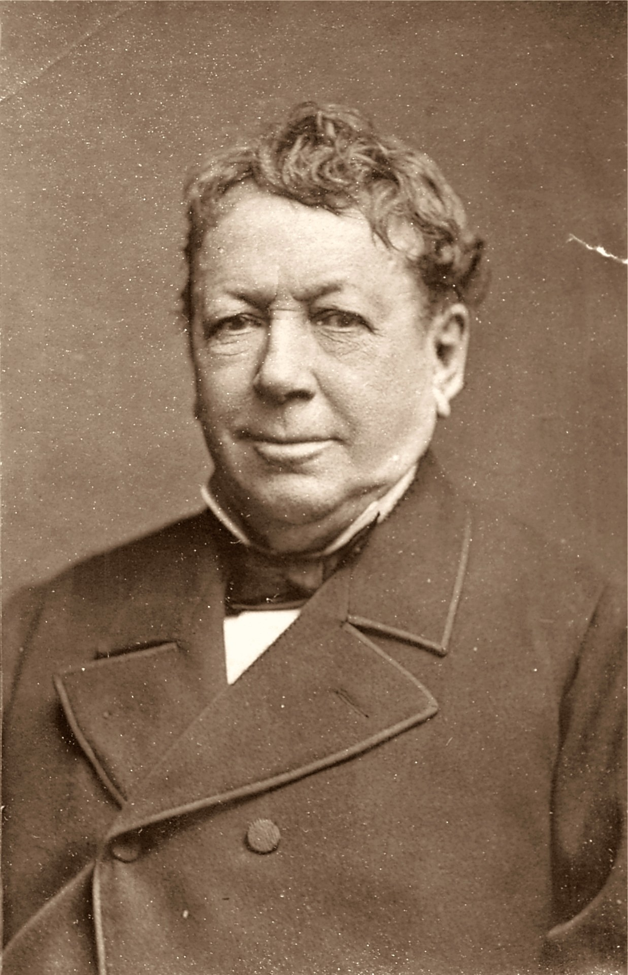 John Baldwin Buckstone 1802-1879, English Actor and Theatre-Manager.